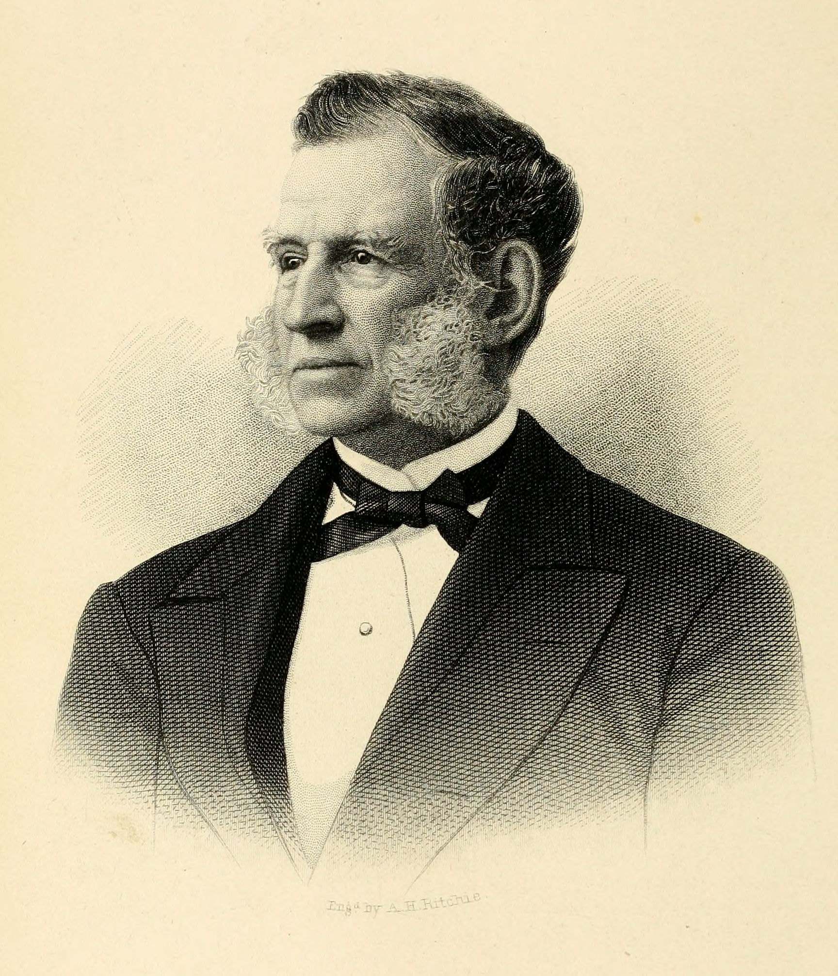 William E. Dodge (1805-1883)